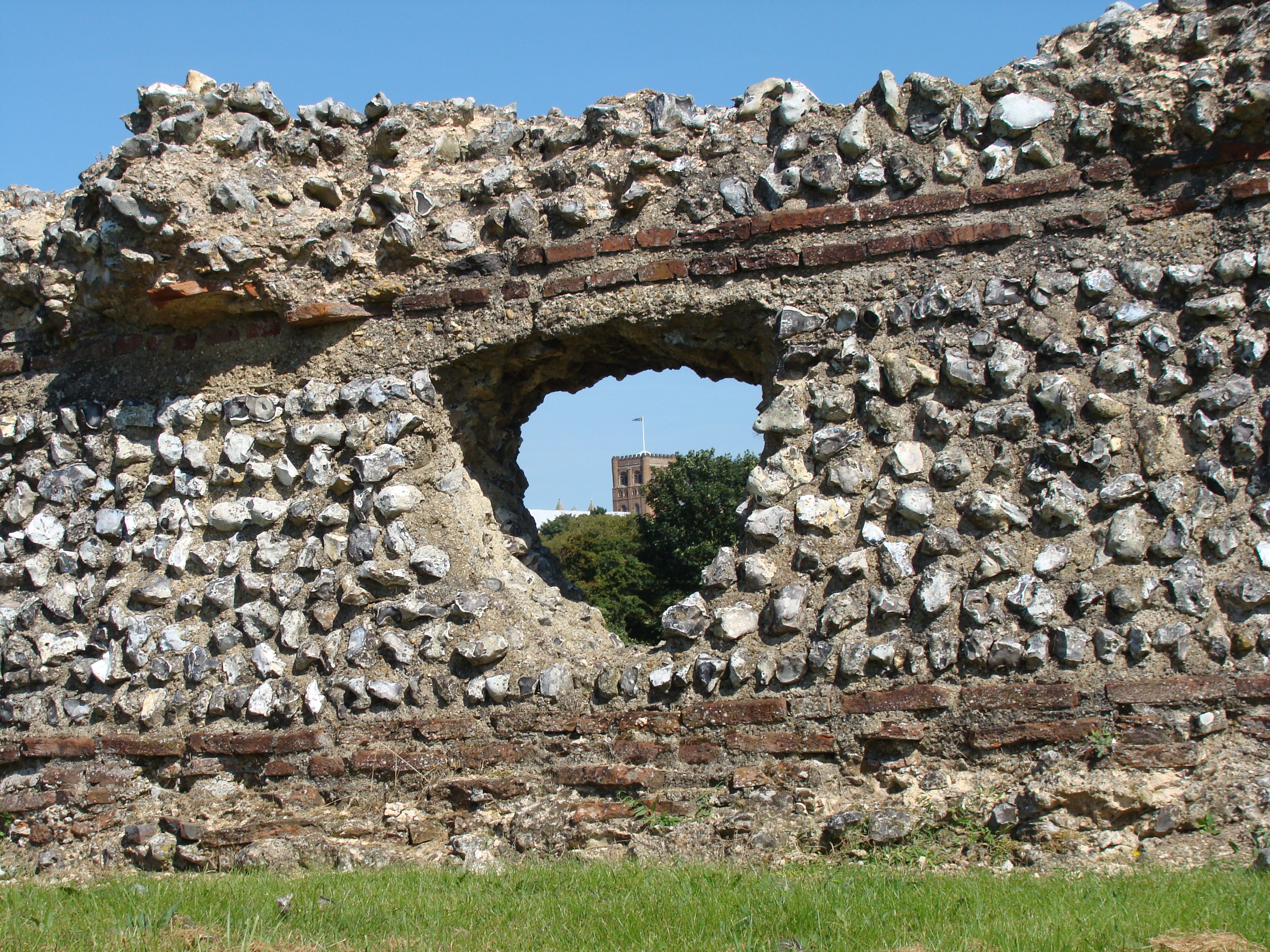 Remains of Roman wall in St Albans, Hertfordshire, UK